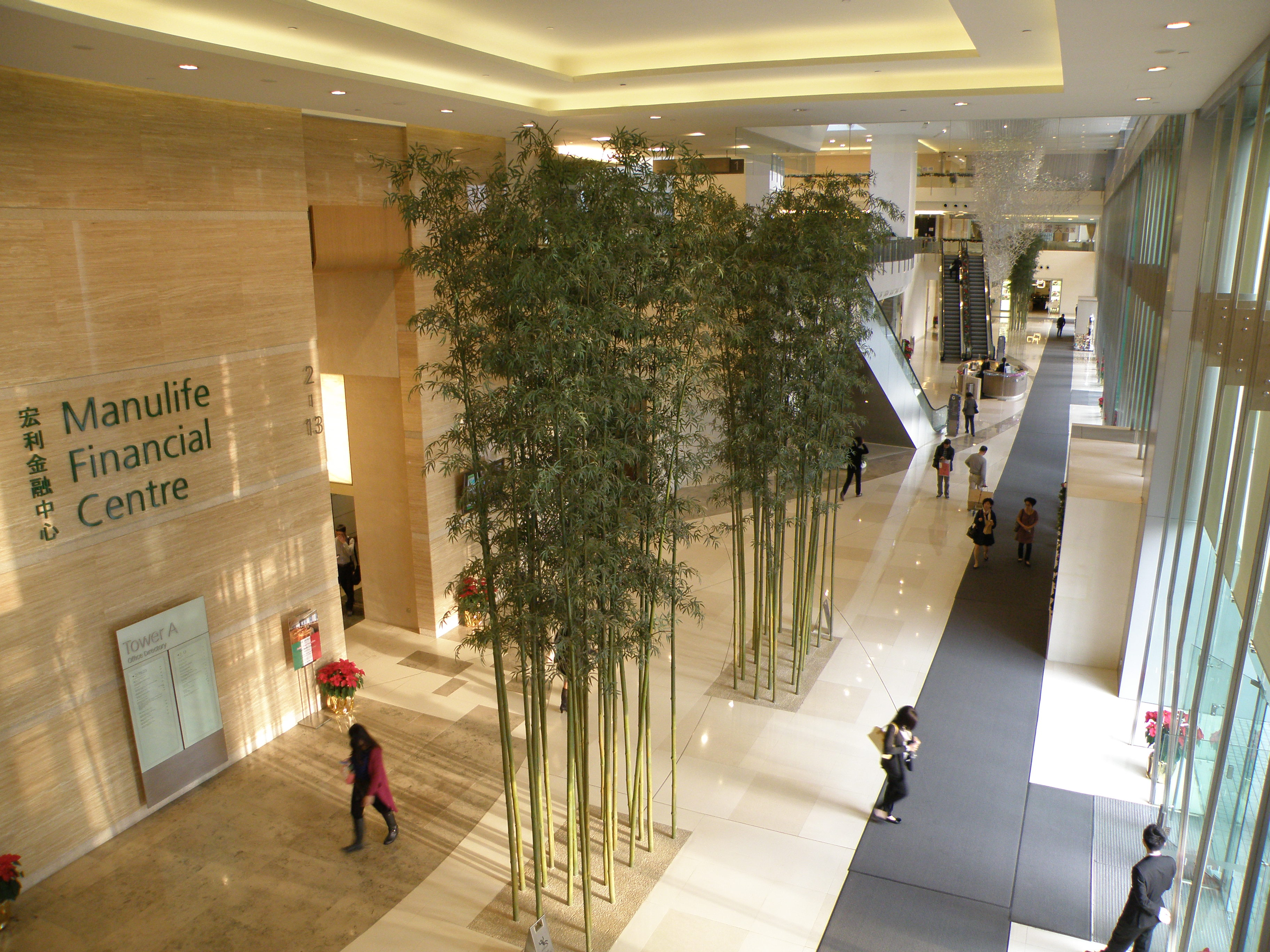 Manulife Financial Centre in Kwun Tong, Hong Kong.